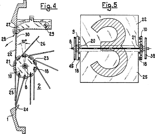 Inner workings of a "flip clock" where a digital display is driven by a system of gears and motors.